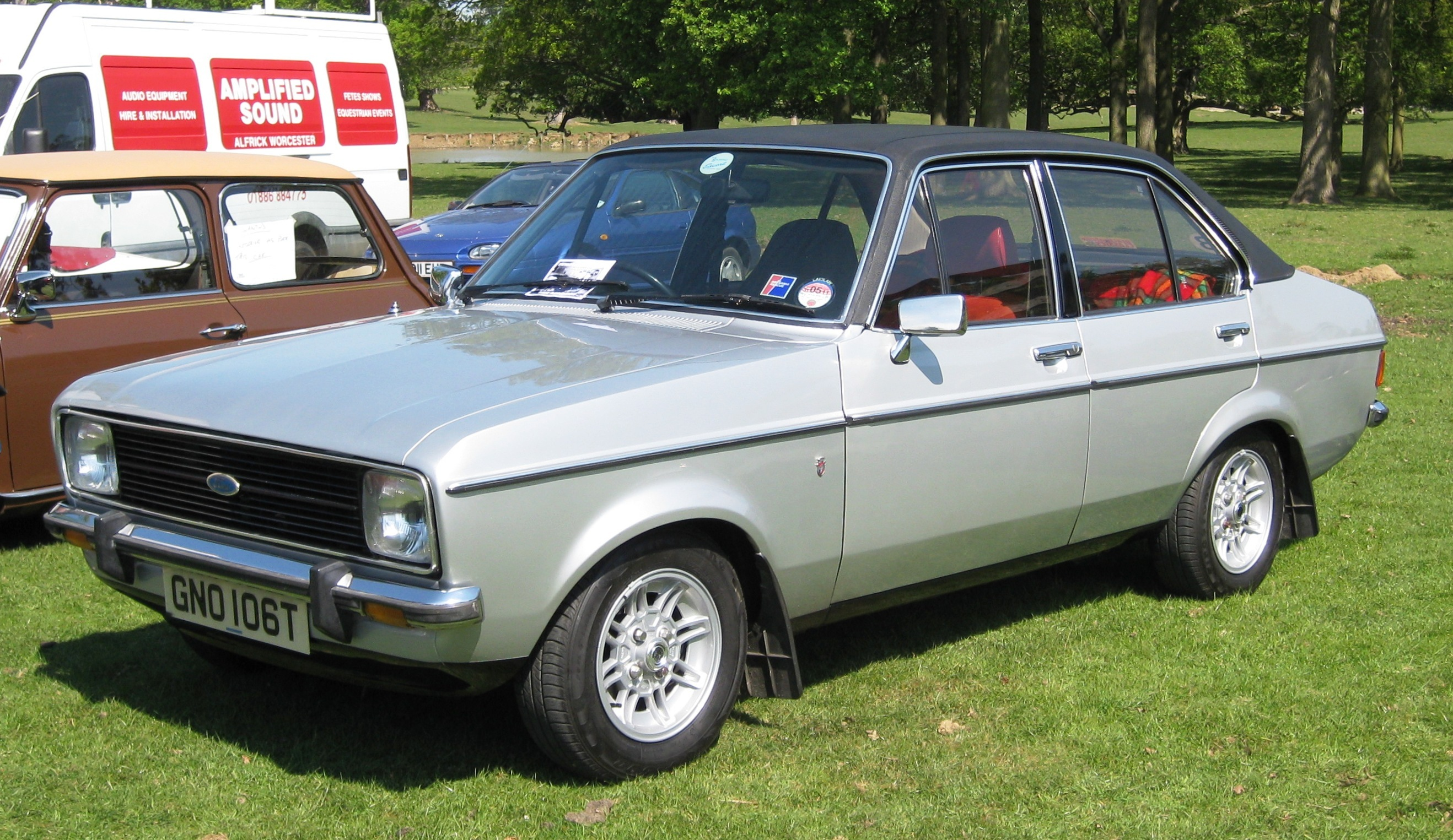 Ford Escort Mk2 with four doors at Woburn